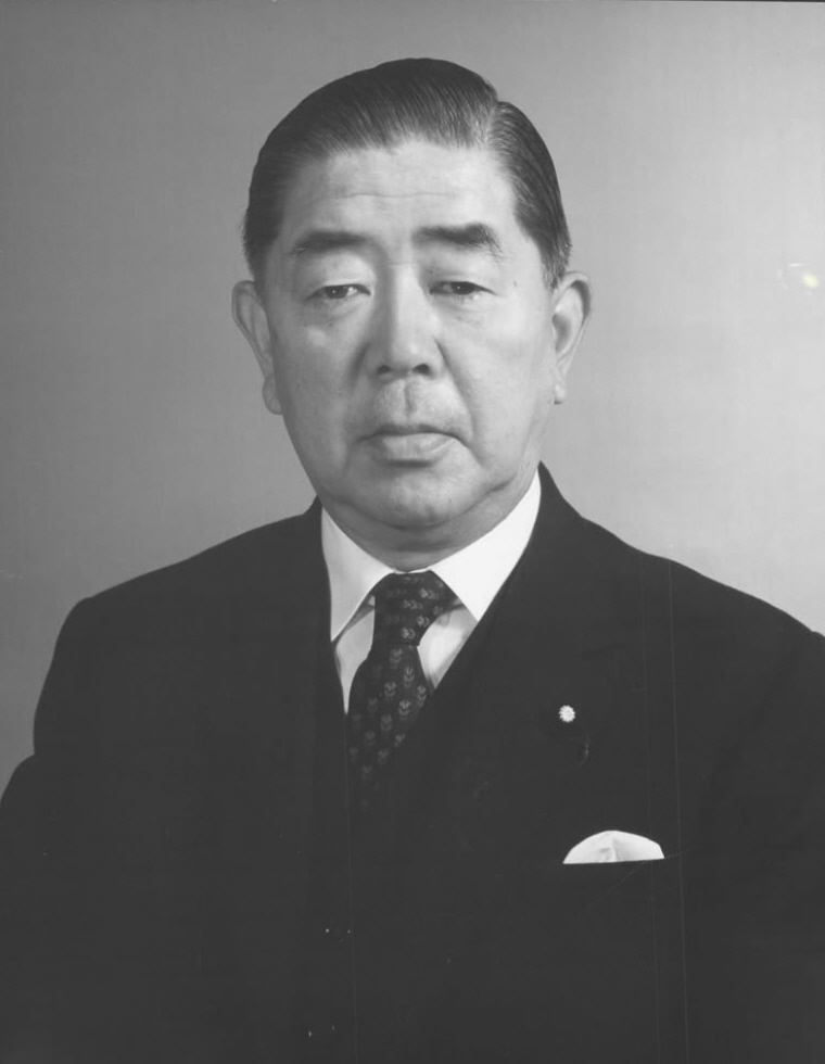 Japanese Foreign Minister Aichi Kiichi in 1971